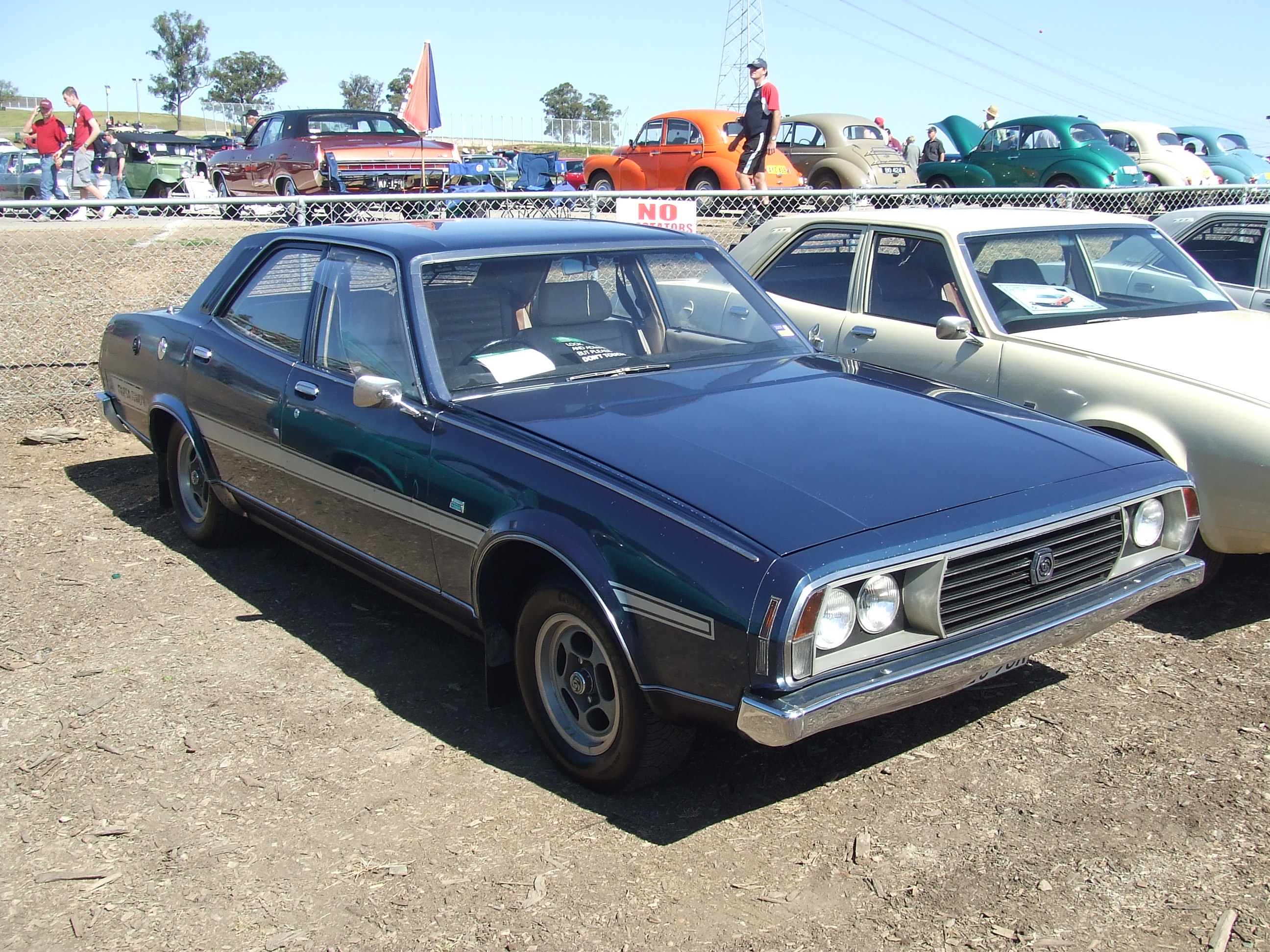 Leyland P76 Targa Florio